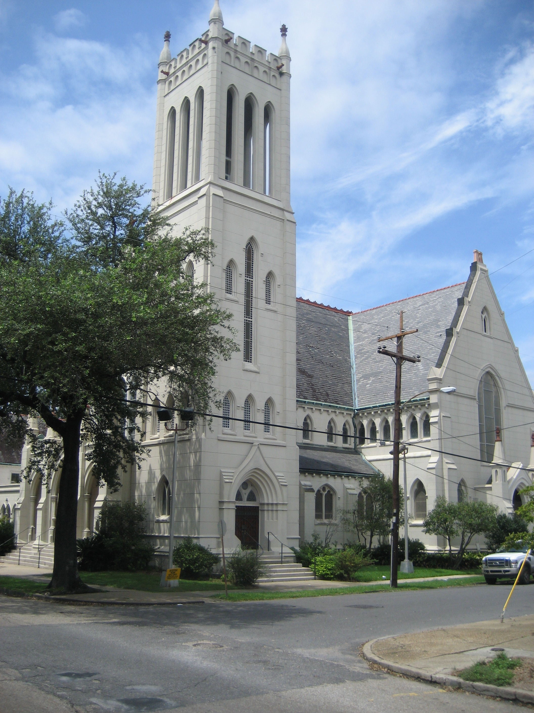 Uptown New Orleans: St. Charles Avenue, lake side of street, seen from streetcar. Christ Church Episcopal Cathedral building.